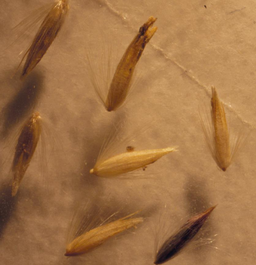 Calamagrostis stricta. Like in all species of Calamagrostis, the lemma callus bears long hairs.